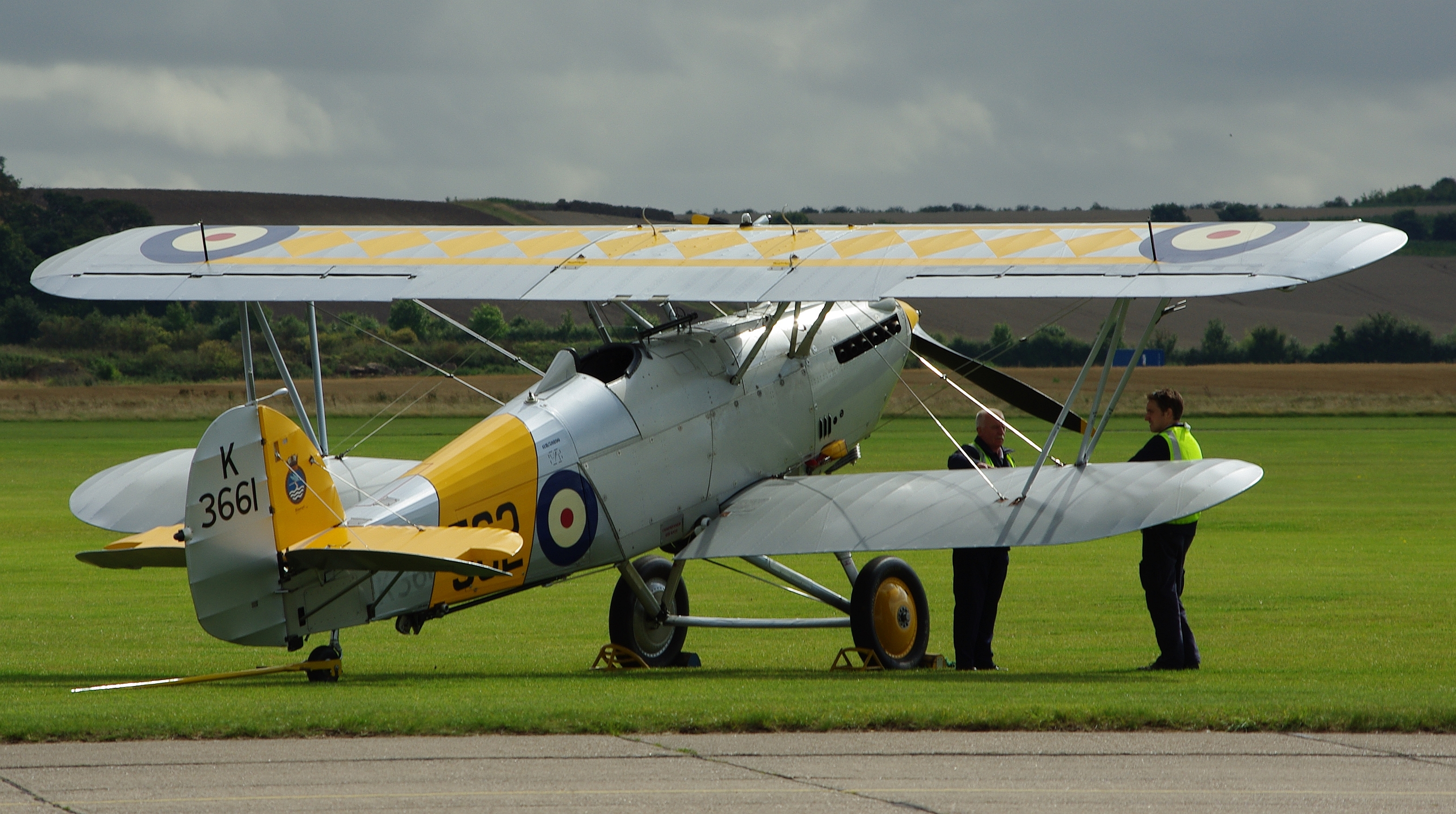 Hawker Nimrod II at the Duxford 90th anniversary airshow 6 September 2008